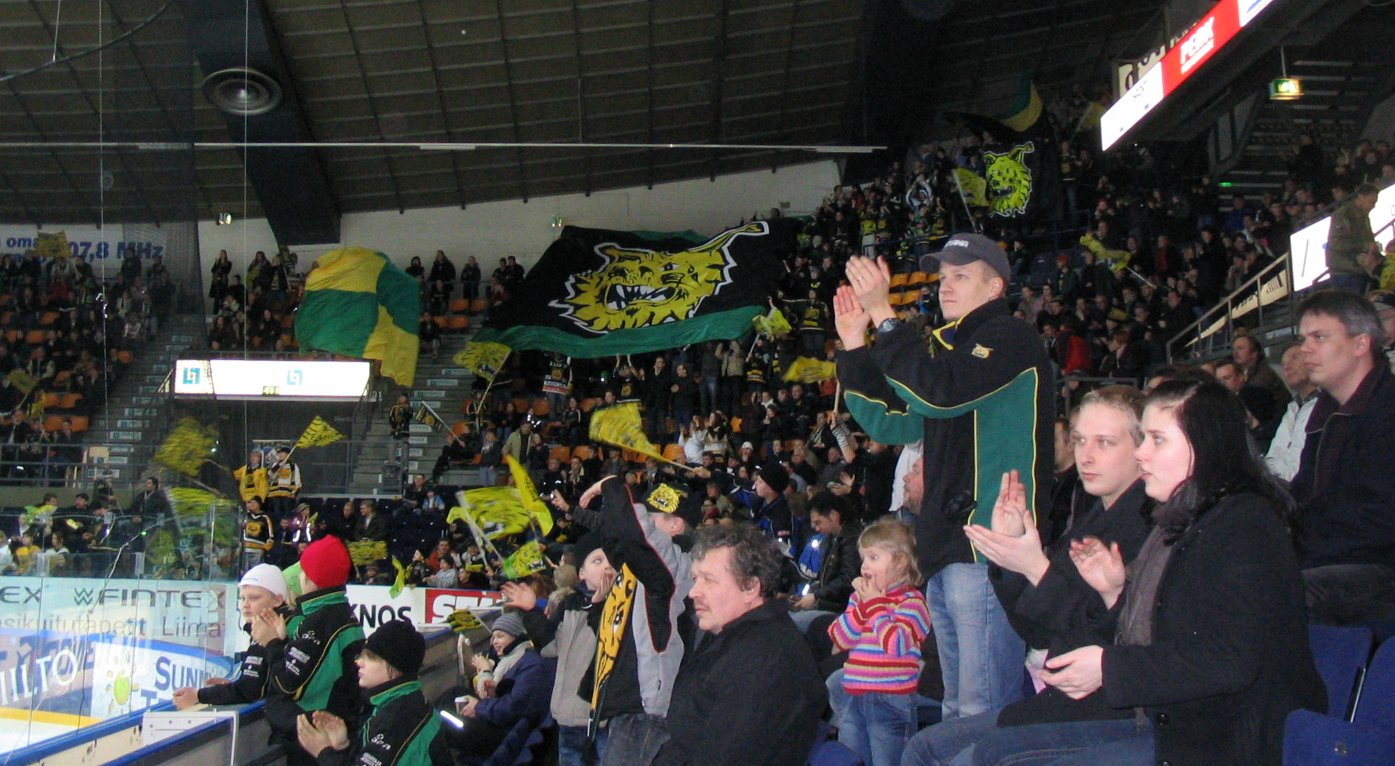 Spectators celebrate a goal scored by Perttu Lindgren of the Finnish hockey club Ilves Tampere in February 2007.